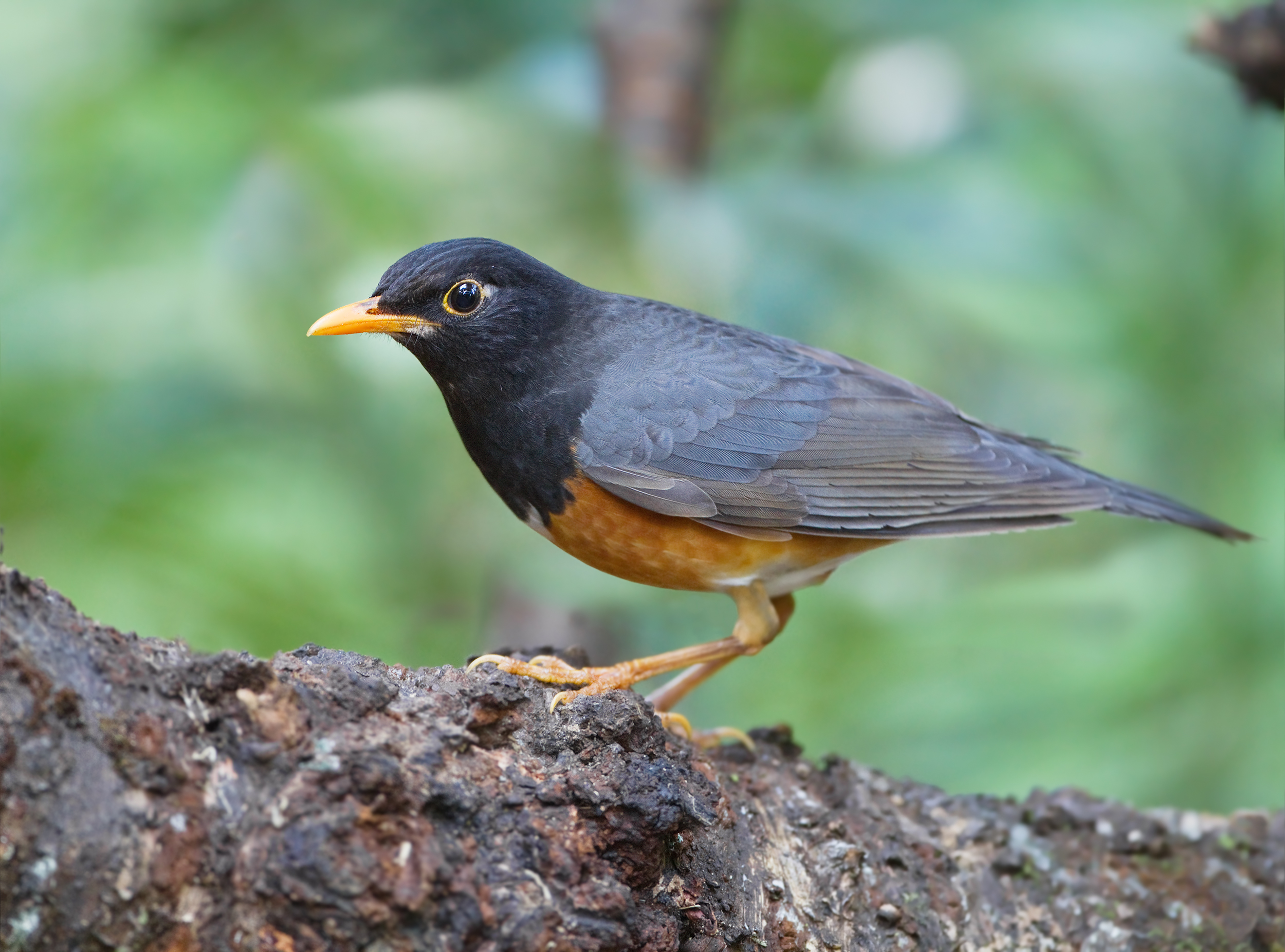 Black-breasted Thrush (Turdus dissimilis) male, Royal Agricultural Station, Ang Khang, Mon Pin, Chiang Mai, Thailand